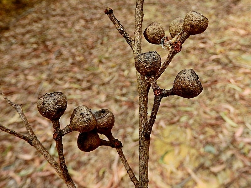 Fruit of Eucalyptus muelleriana in the Mumbulla State Forest, near Bega